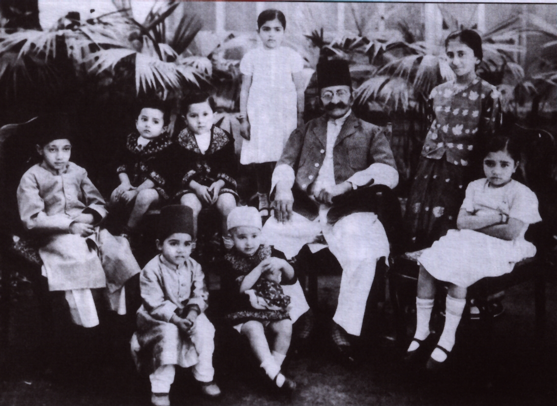 Kishen Pershad, twice prime minister of the Indian state of Hyderabad with sons and daughters